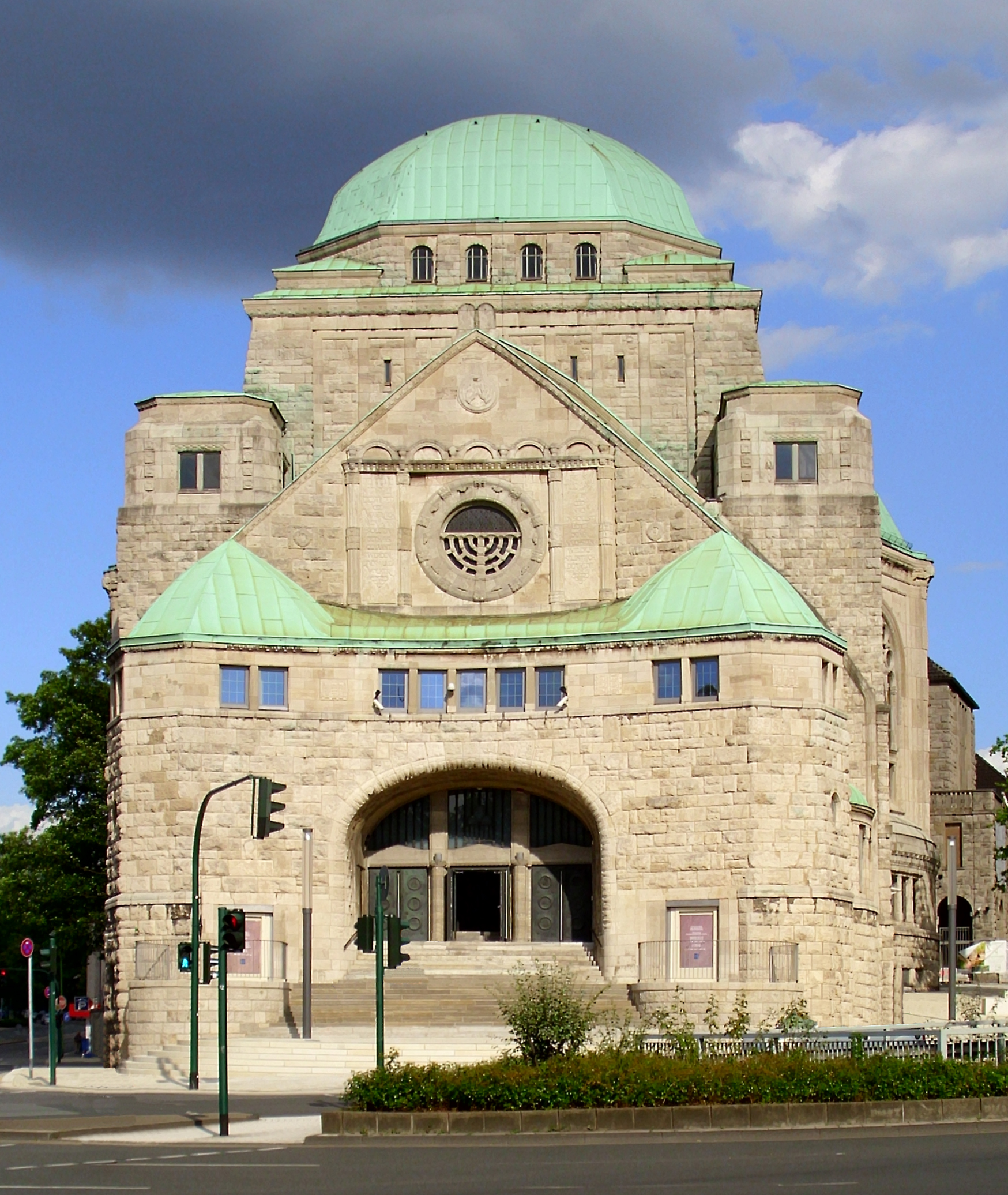 The old synagogue in Essen